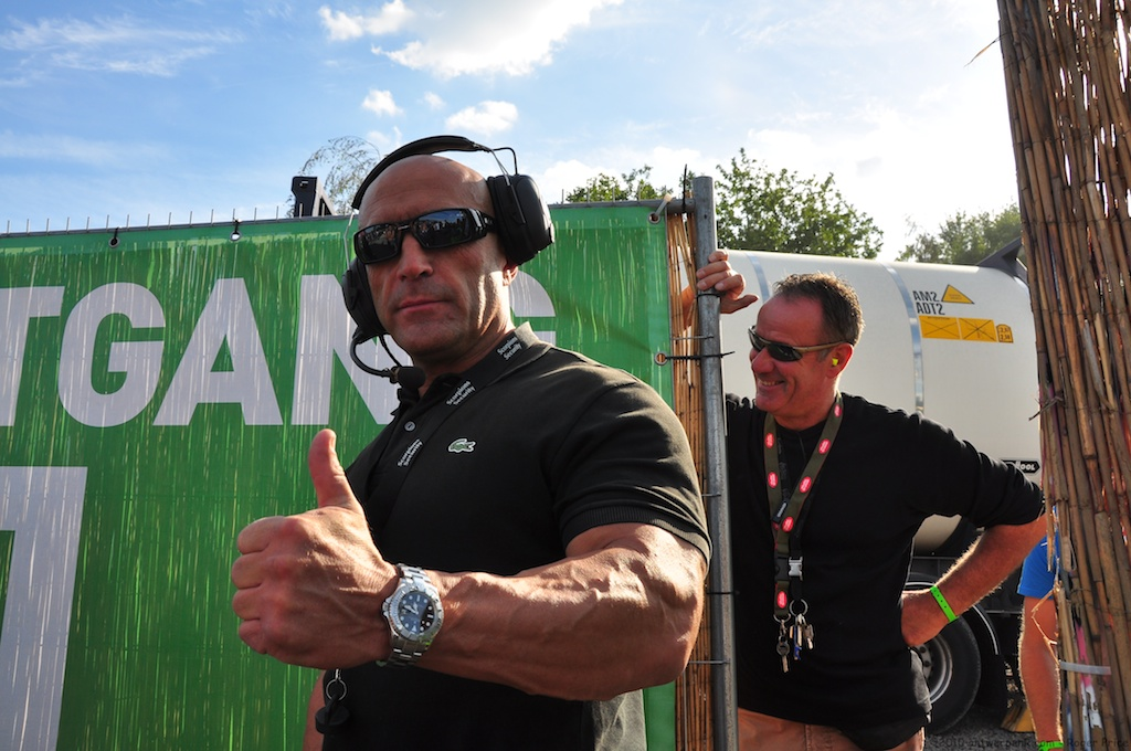 You can see and download the full set of pictures here Nikon D5100 + AF-S DX VR Zoom-Nikkor 18-200mm f/3.5-5.6G IF-ED